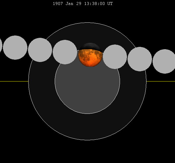 January 1907 lunar eclipse chart of moon's path through the earth's shadow. thumb